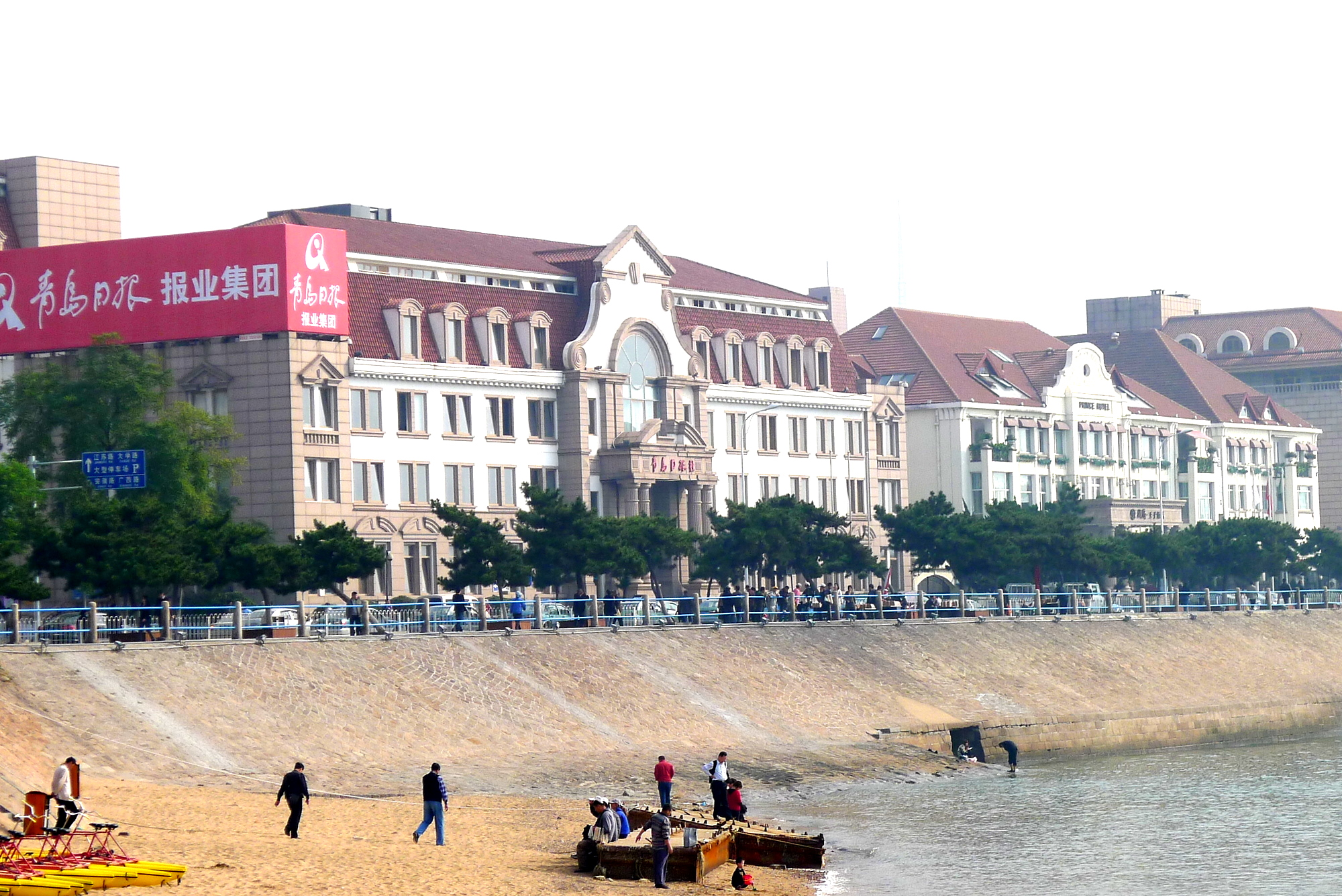 Headquarter of Qingdao Daily